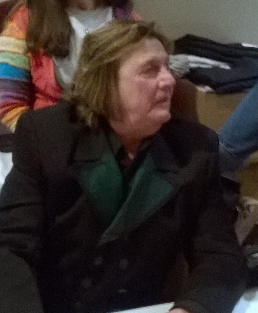 Singer Billy J Kramer in Rye New York, April 16, 2016